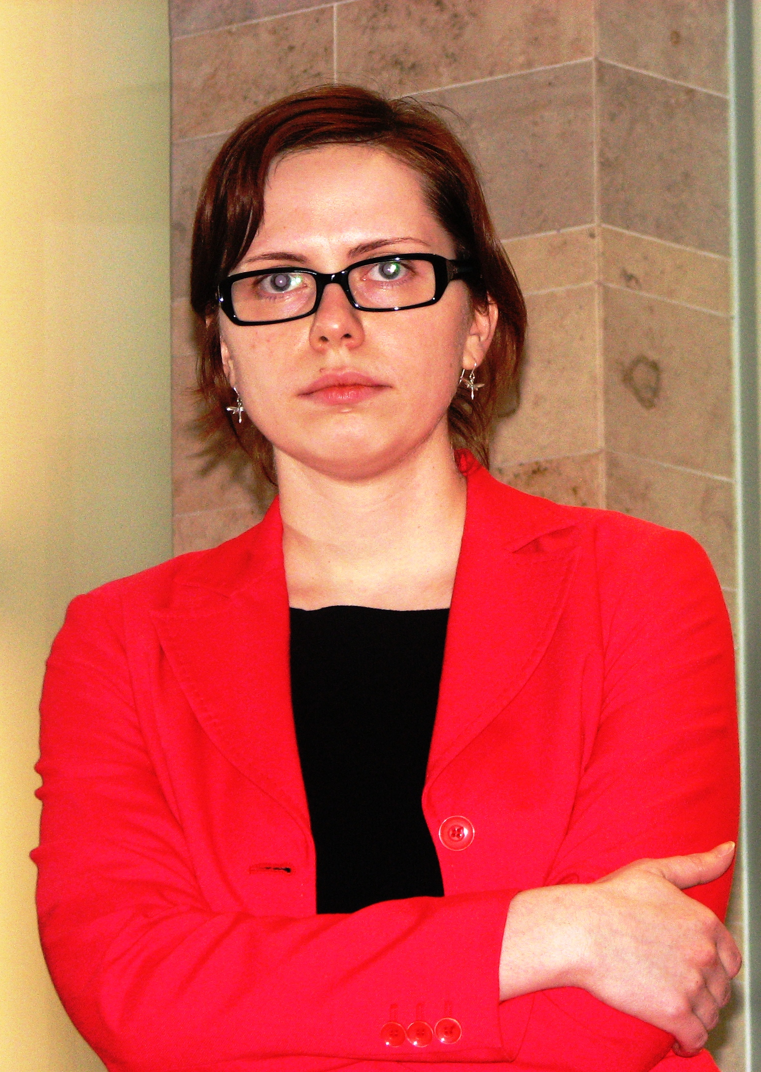 Maarja Kaaristo performing in Baltic Book Fair 2010